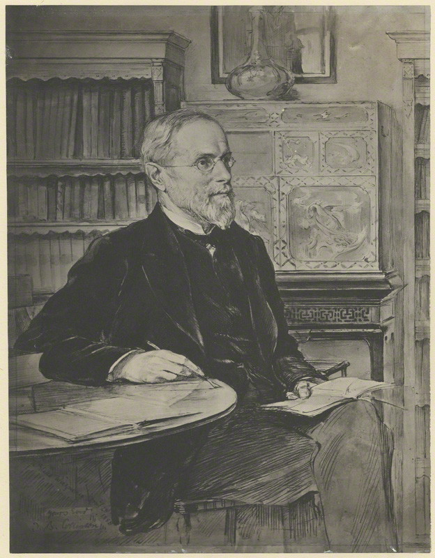 after Theodore Blake Wirgman, photographic print, (1888)